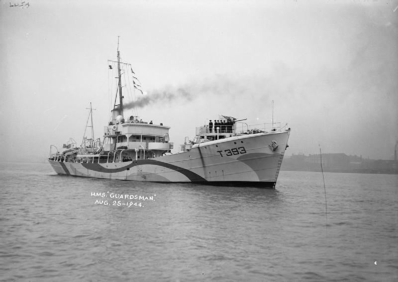 HMS Guardsman Underway, coastal waters.